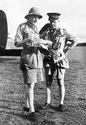 Australian War Memorial (AWM) catalog number 128118 Sourced from: Copyright: The AWM record for this photo states that the copyright status is 'clear'. The photo was taken in 1941/42. No exact date given. AWM Caption: AIR CHIEF MARSHAL SIR ROBERT BROOKE-POPHAM, COMMANDER-IN-CHIEF FAR EAST, AND GENERAL SIR ARCHIBALD WAVELL. (RAAF). Post-Work: W.Wolny ==